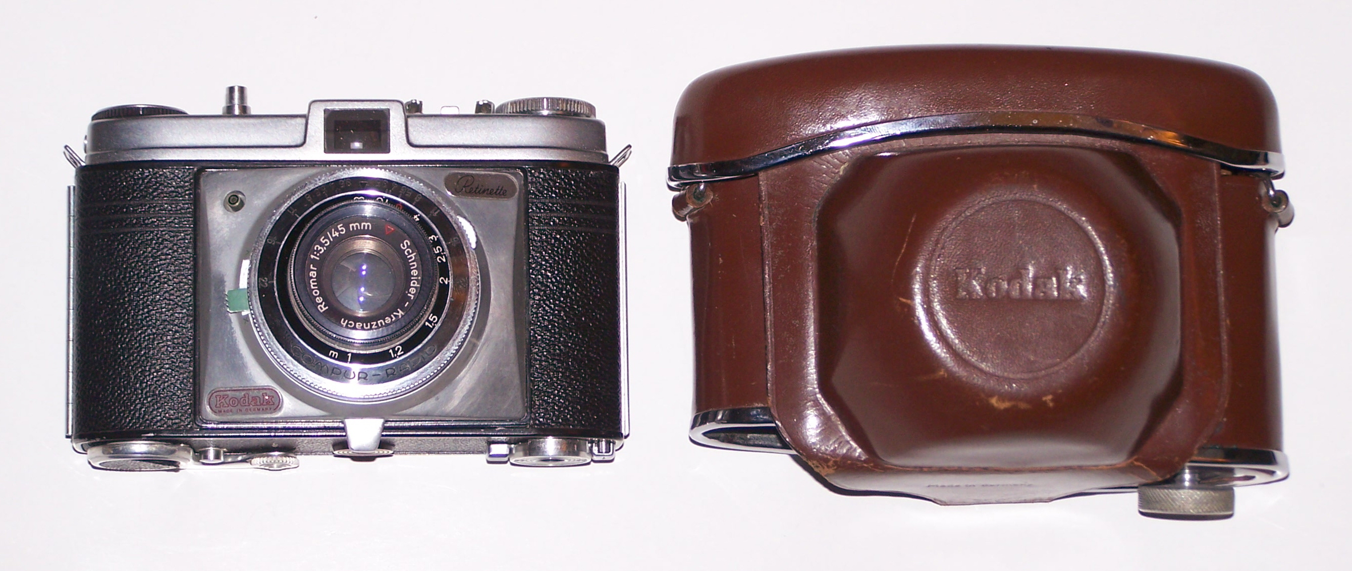 Please see filename above